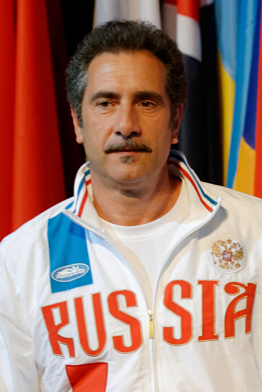 Russia's national coach Stefano Cerioni at the award ceremony of the women's team foil event at the European Fencing Championships at Rhénus Sport in Strasbourg on 14 June 2014.